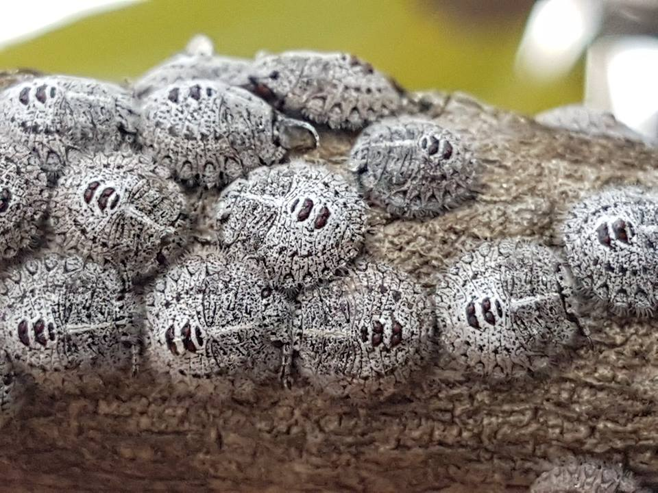 Libyaspis wahlbergi (Stål, 1863) - Walter Sisulu Botanical Garden, Johannesburg